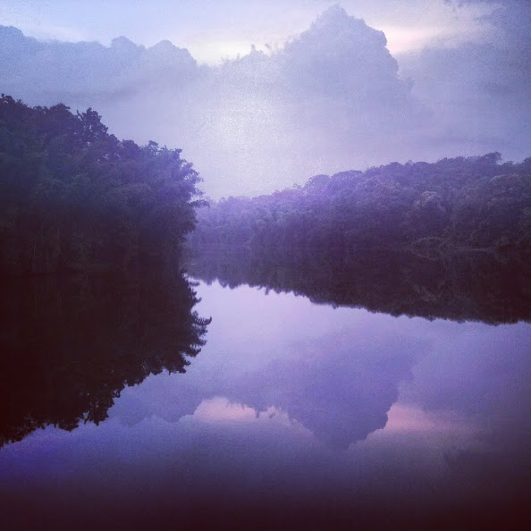 View of Parambikulam Reservoir from tree-house.